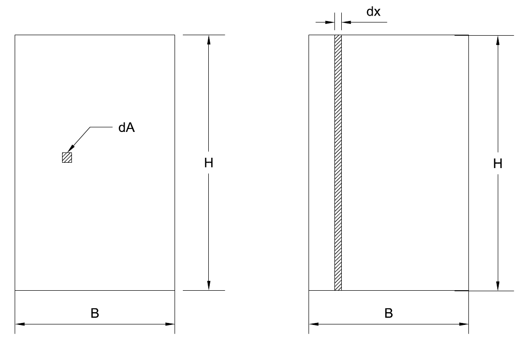 Centroid of an area.